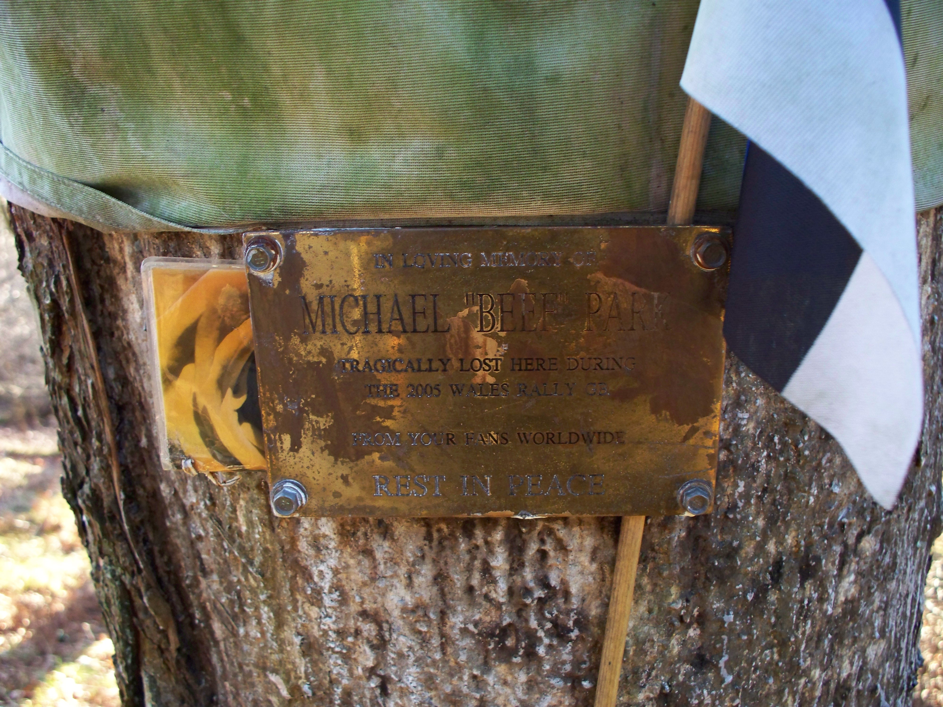 This is the memorial for Michael Park who lost his life during the 2005 WRC in Bryn.